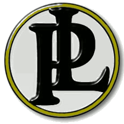 Panhard logo.